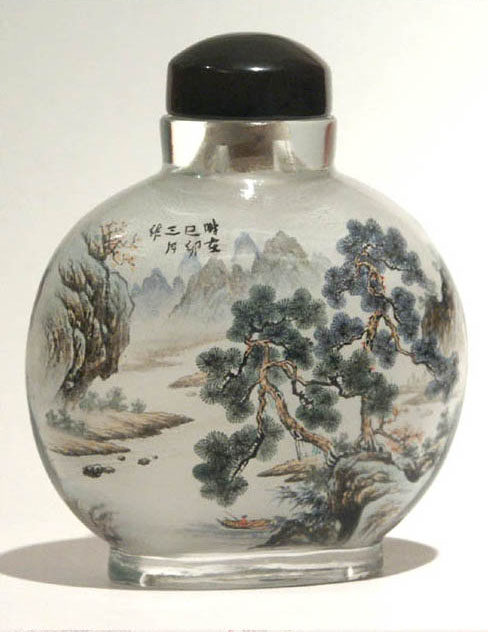 Snuff bottle with reverse painting